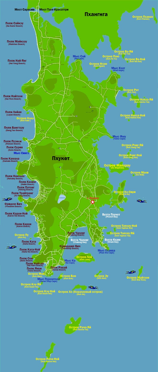 Map of Phuket island with beaches and nearby Islands (Russian)